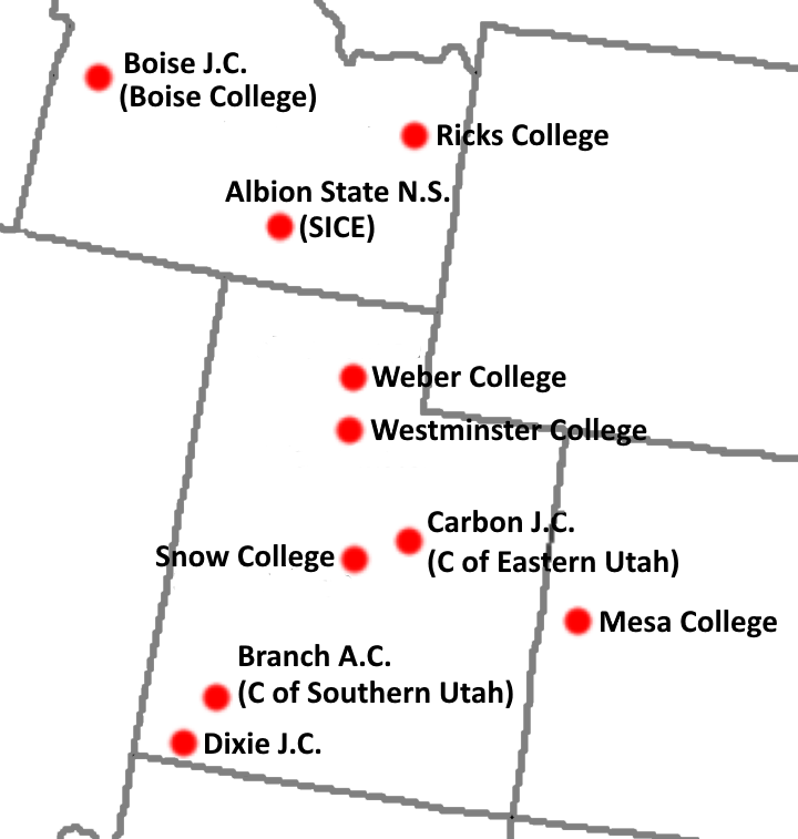 This is a map of all colleges that were members of the Intermountain Collegiate Athletic Conference, a Junior College athletic conference that existed from 1936 to 1984. All schools did not share the conference at the same time, but every member shared the conference with every other member at one point.